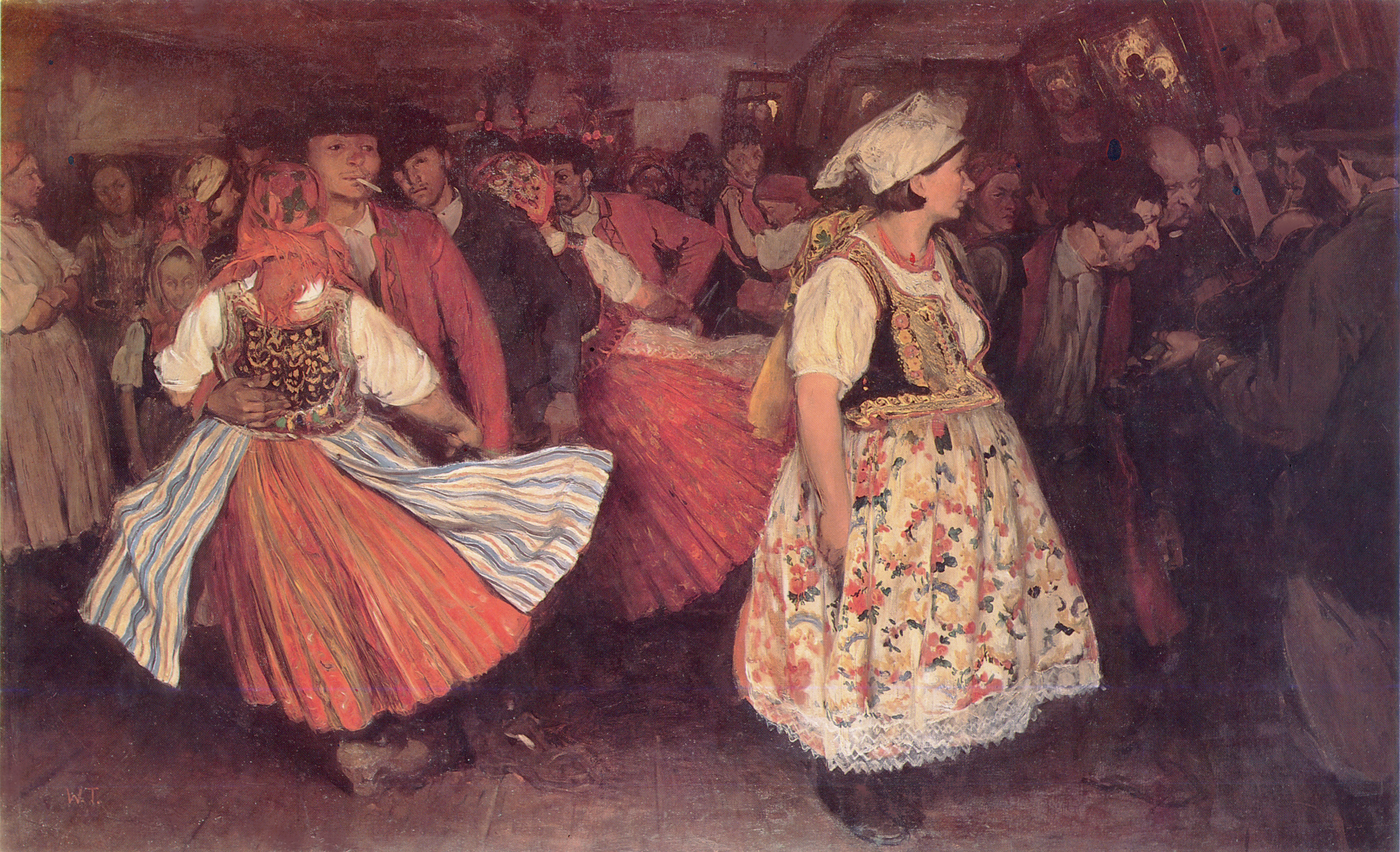 Dances in a inn